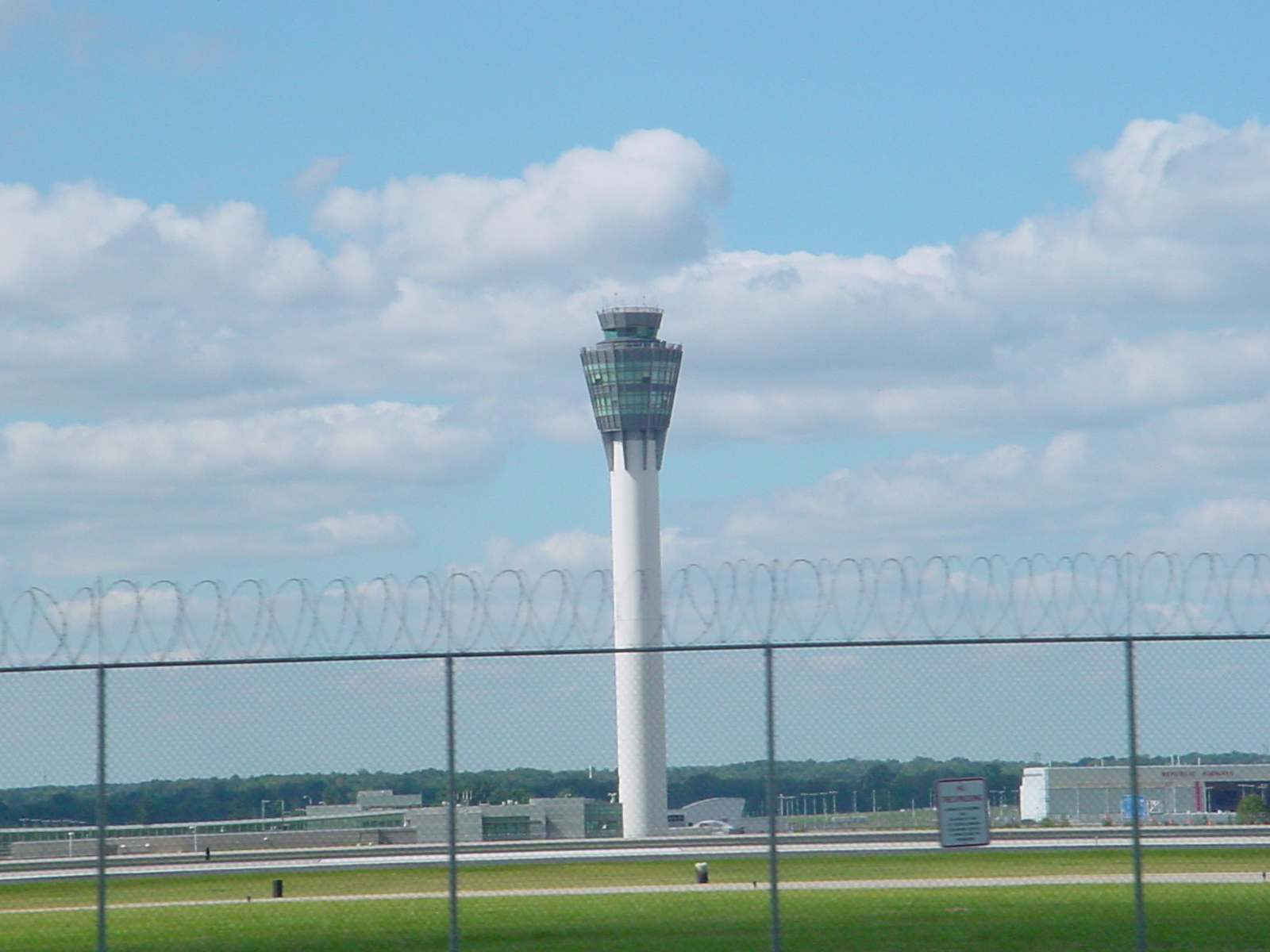 FAA tower at KIND